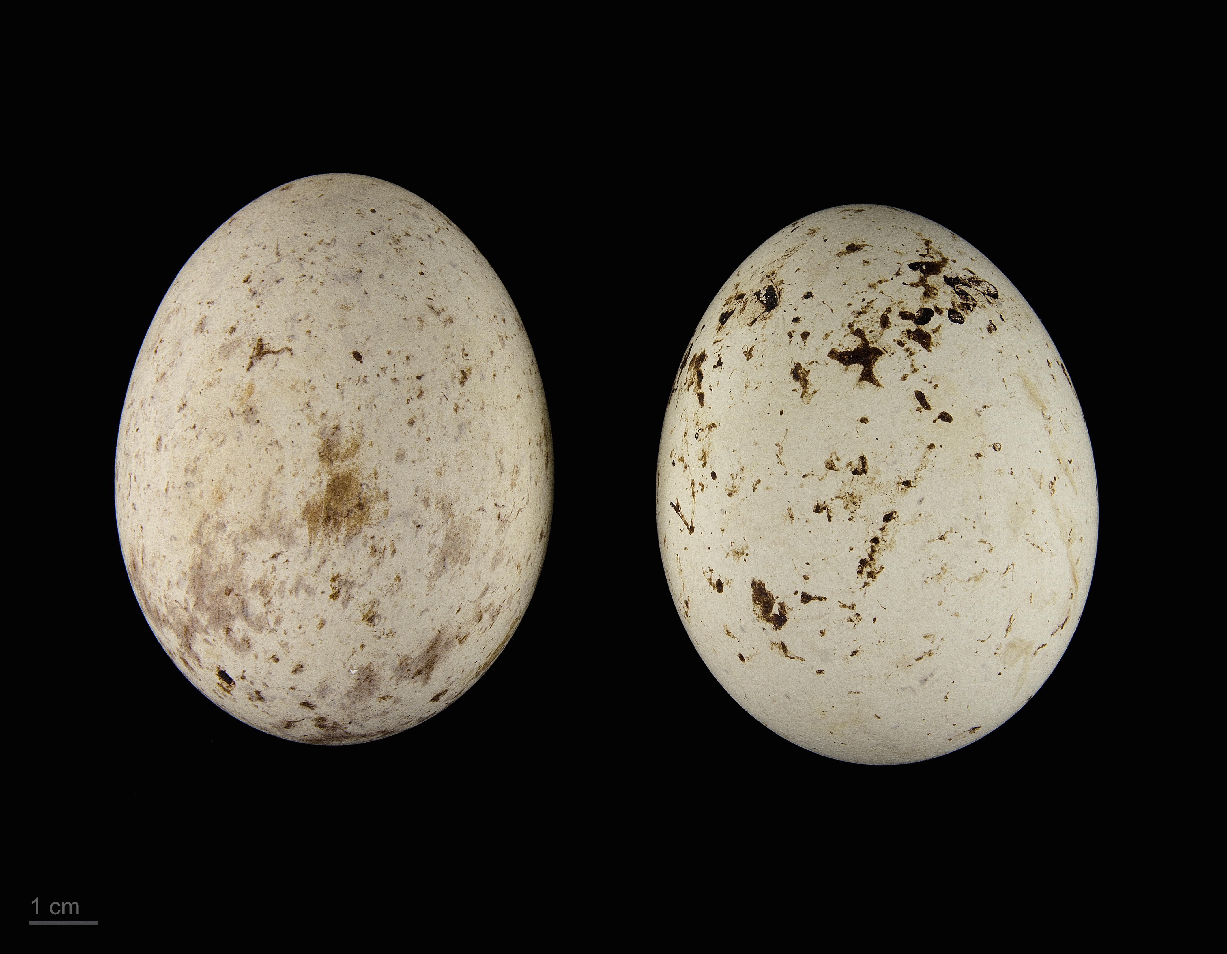 Eggs of Buteo buteo rotschildi Two specimens of the same spawn ; collection of Jacques Perrin de Brichambaut.